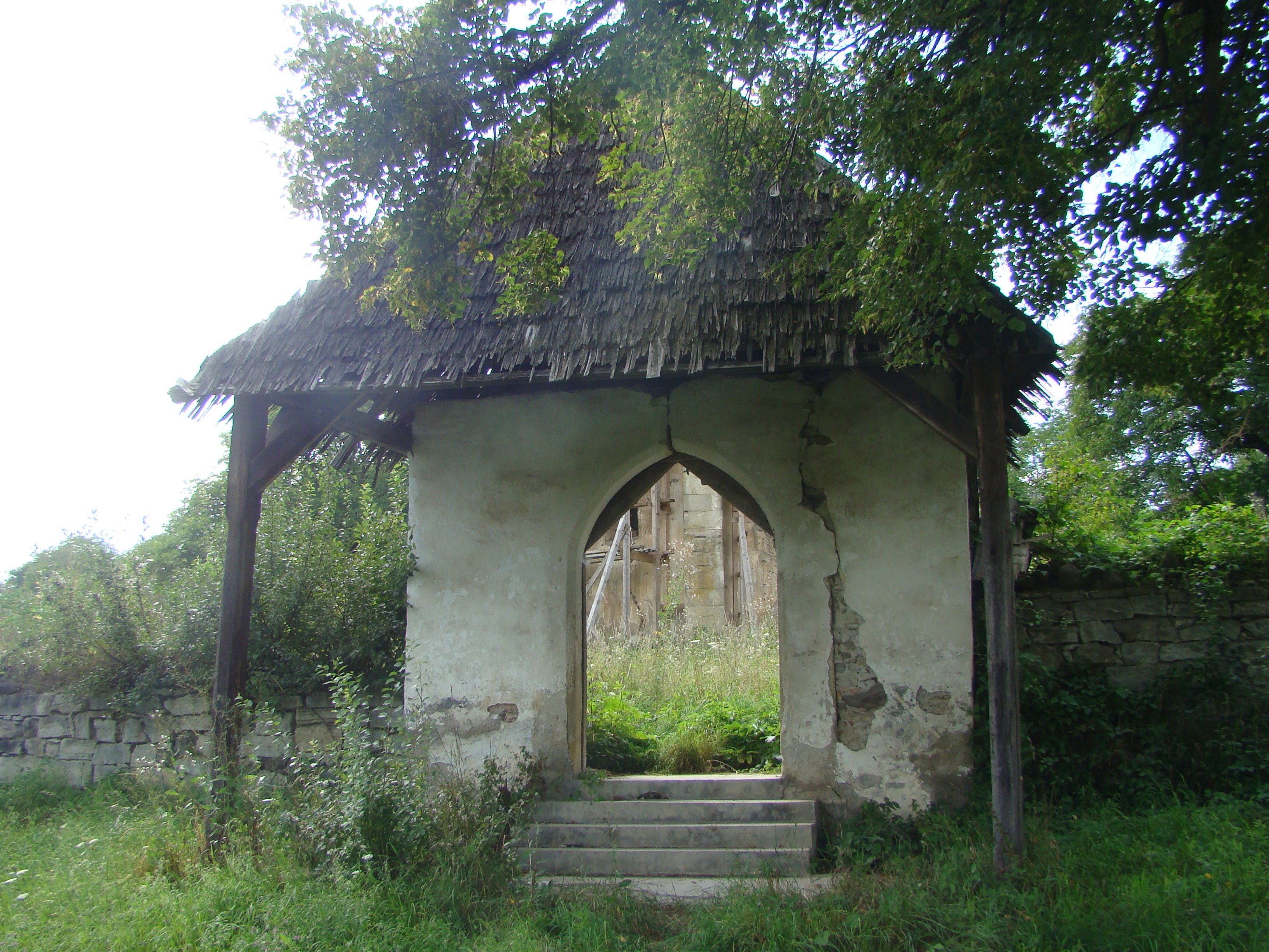 Lutheran church in Jelna, Bistrița-Năsăud county, Romania